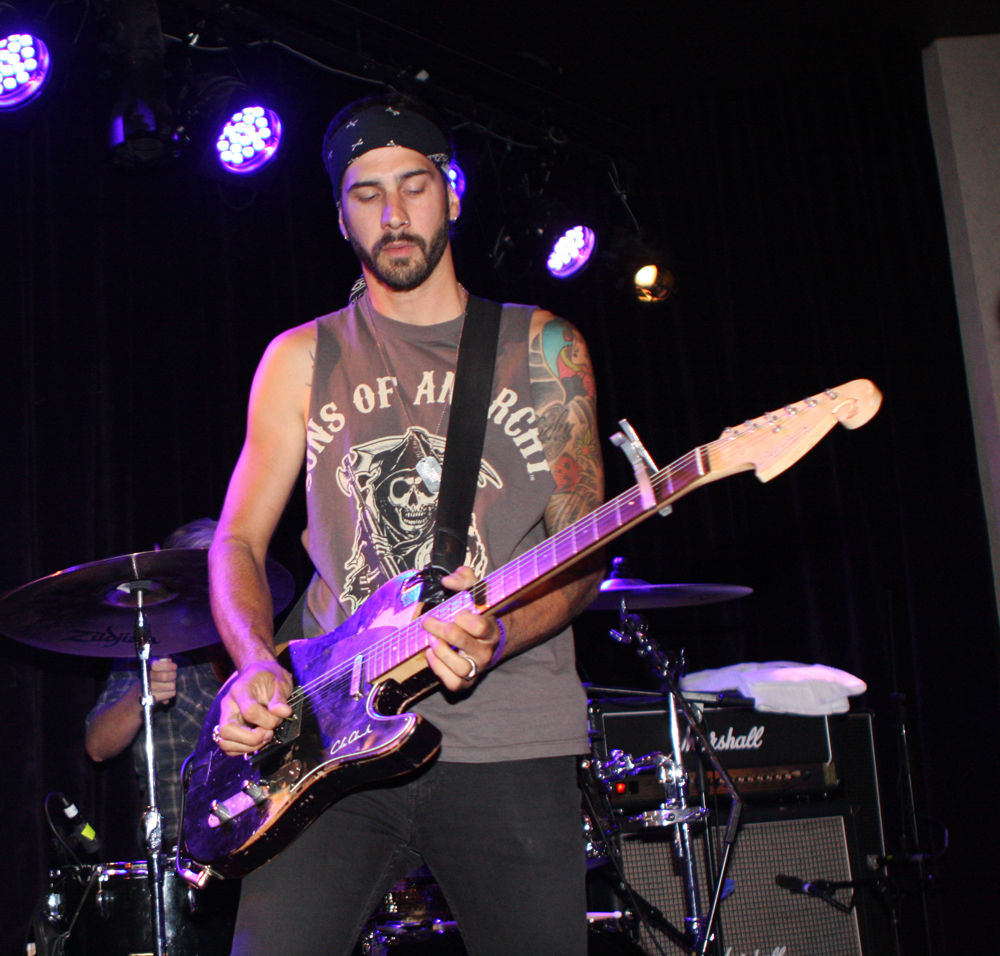 The Star Opens Marquee Nightclub; Entertainment Rather Than Casino Focus The Star tonight unveiled their latest weapon in the Australian casinos wars - all part of the battle for the entertainment dollar. The pitch reads... Internationally acclaimed nightclub operator Tao Group is set to bring a monumental change to Sydney's nightlife landscape with the opening of Marquee - The Star Sydney in late March 2012. Marquee - The Star Sydney will be located on the entire top tier of The Star's new Pirrama Road harbourside entrance, commanding expansive views of Sydney Harbour and the city skyline. With nearly 20,000 square feet of floor space, the venue is designed to house three distinct spaces within the one venue to cater for different tastes and moods. The Main Room will feature a 30-foot projection stage with an LED DJ booth and two dance floors. In contrast, a stylish Library style room will offer an intimate lounge experience, accentuated by a working fireplace. Venturing further into the venue, club-goers will come across the Boom Box, with a separate DJ, state-of-the-art sound system and outdoor patio. There is also a chill-out area with unparalleled views of the Sydney skyline and a unisex "bathroom lounge". Furnished with dynamic and unique interiors, the venue will have a retail store and separate VIP entrance for quick entry from street level. Perth based band Gyroscope played: Pain 1981 Beware Wolf Still Taste Blood Dream BS Scream Doctor Doctor Live Without You Sotpik Midnight Express Baby Weapon Enemy Friend These Days Safe Forever Take This For Granted Fast Girl Snakeskin We would like to say a big thank you to everyone who made today a success, and we'll see you back at The Star again soon. Websites Marquee Sydney The Star Marquee (The Star) Echo Entertainment Gyroscope Eva Rinaldi Photography Flickr Eva Rinaldi Photography Music News Australia